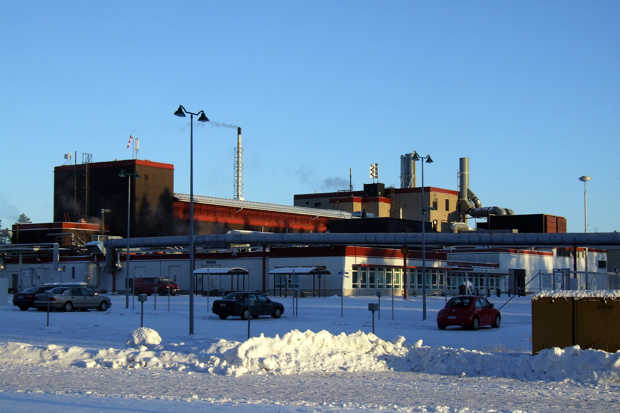 Pharmaceutical plant of Fermion Oy (part of the Orion Group) in Sanginsuu, Oulu, Finland.